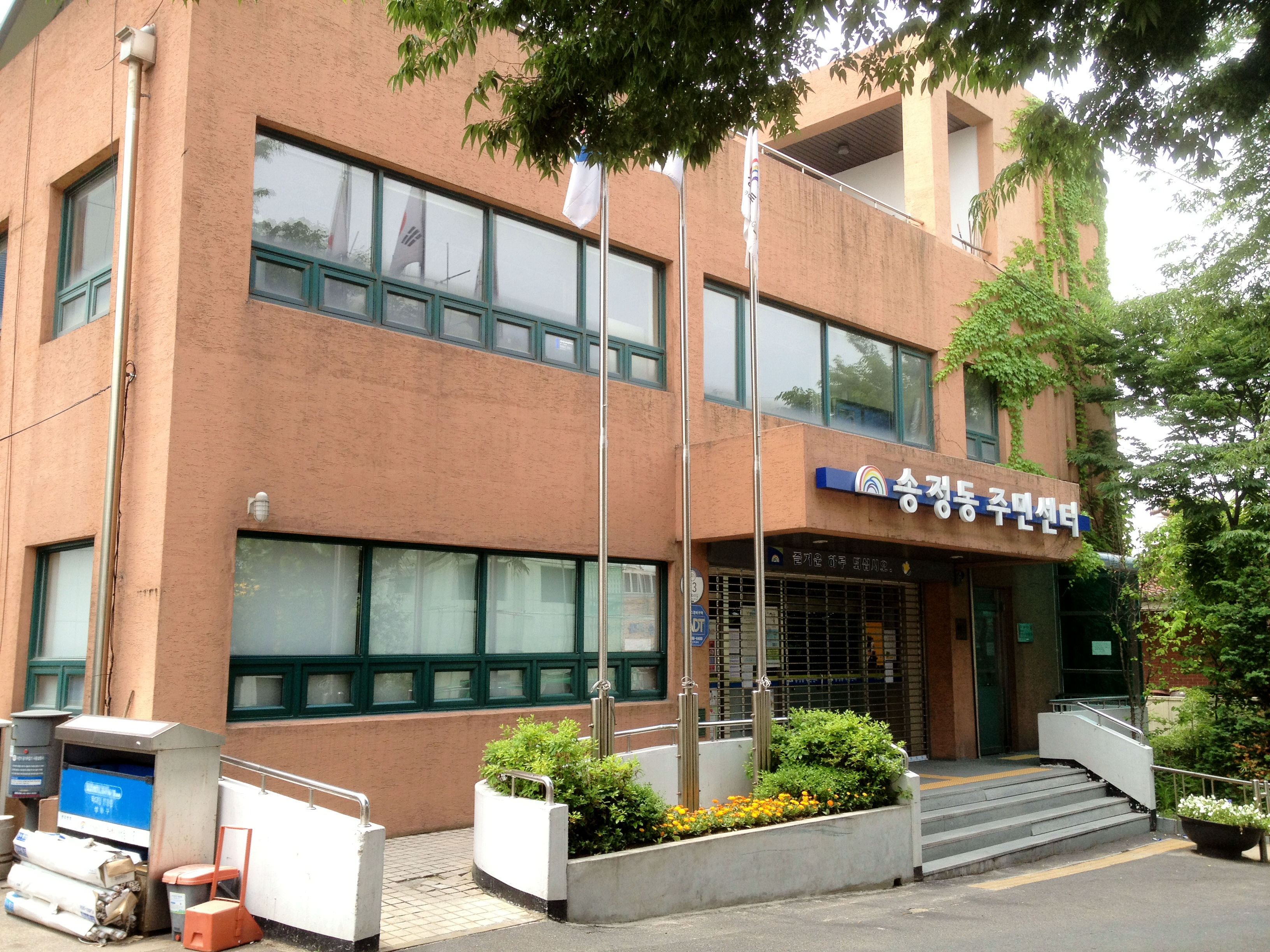 Songjeong-dong Comunity Service Center(Seongdong-gu)